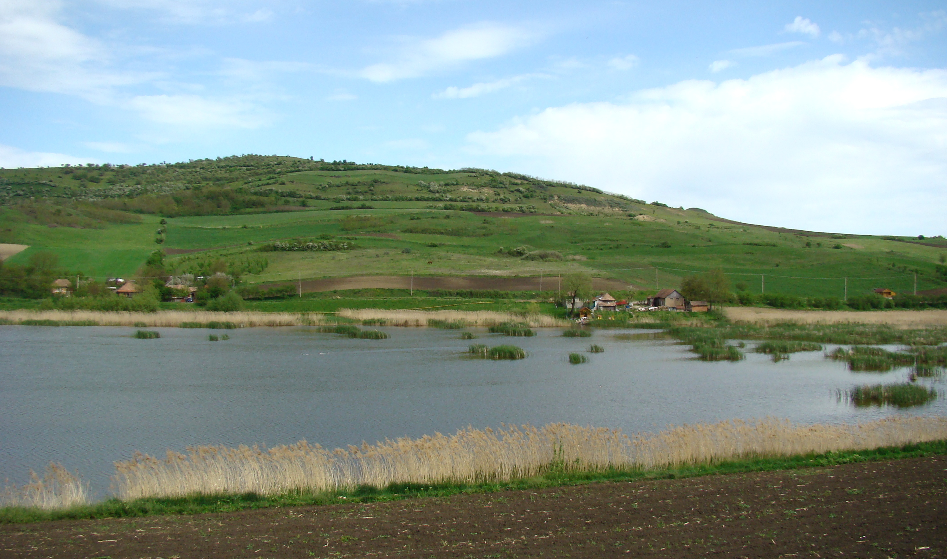 Hodaie, Cluj county, Romania